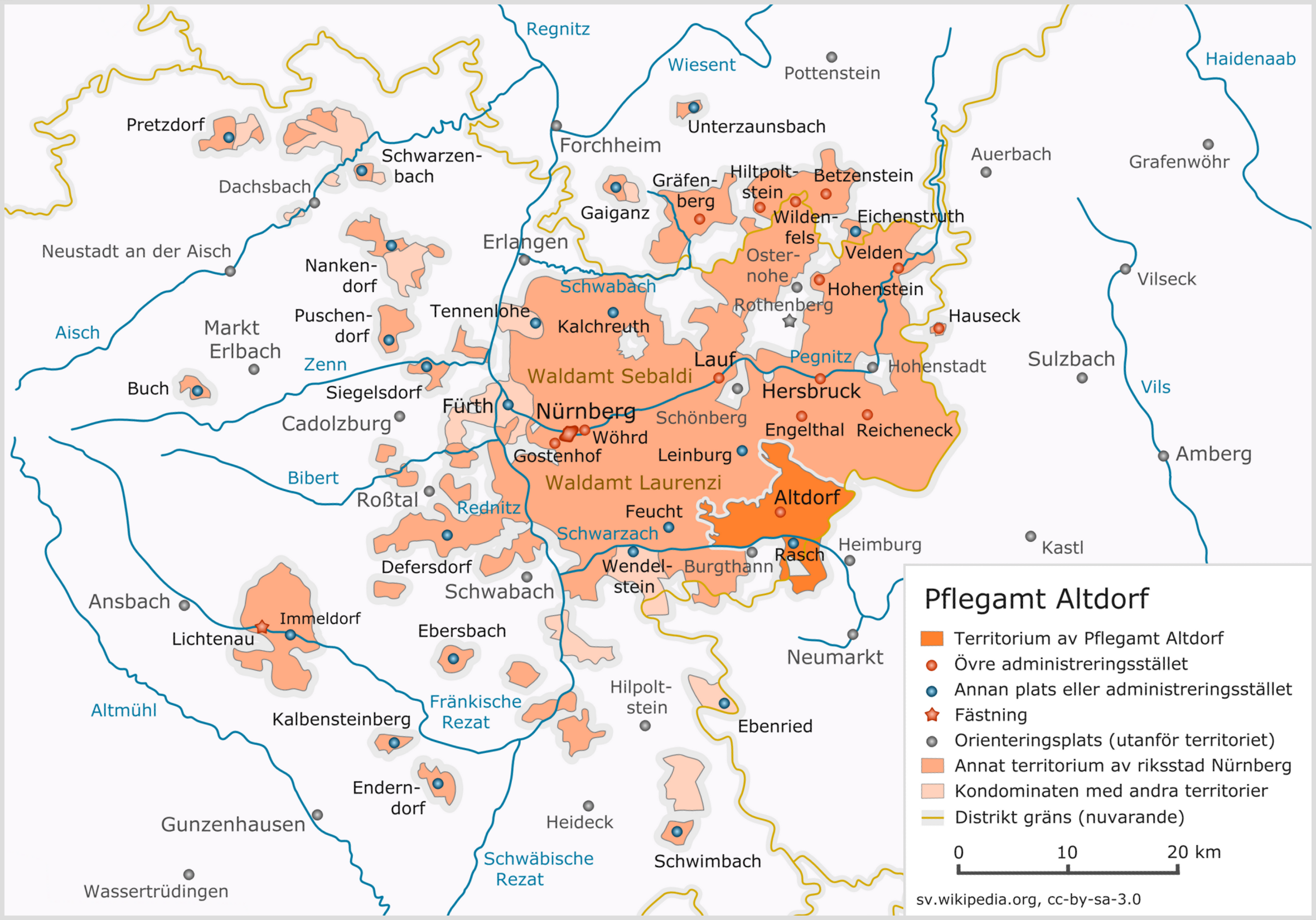 Map of the Pflegamt Altdorf